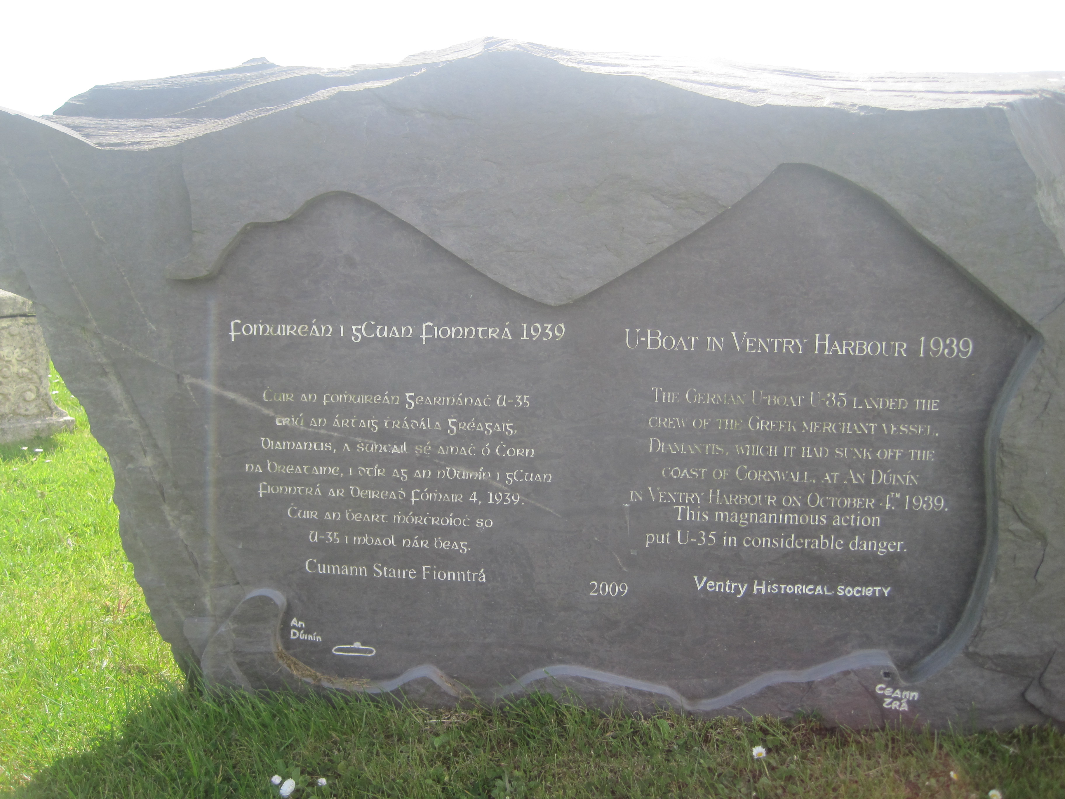 Memorial for the German WW2-Submarine U-35 in Ventry near Dingle, Ireland.